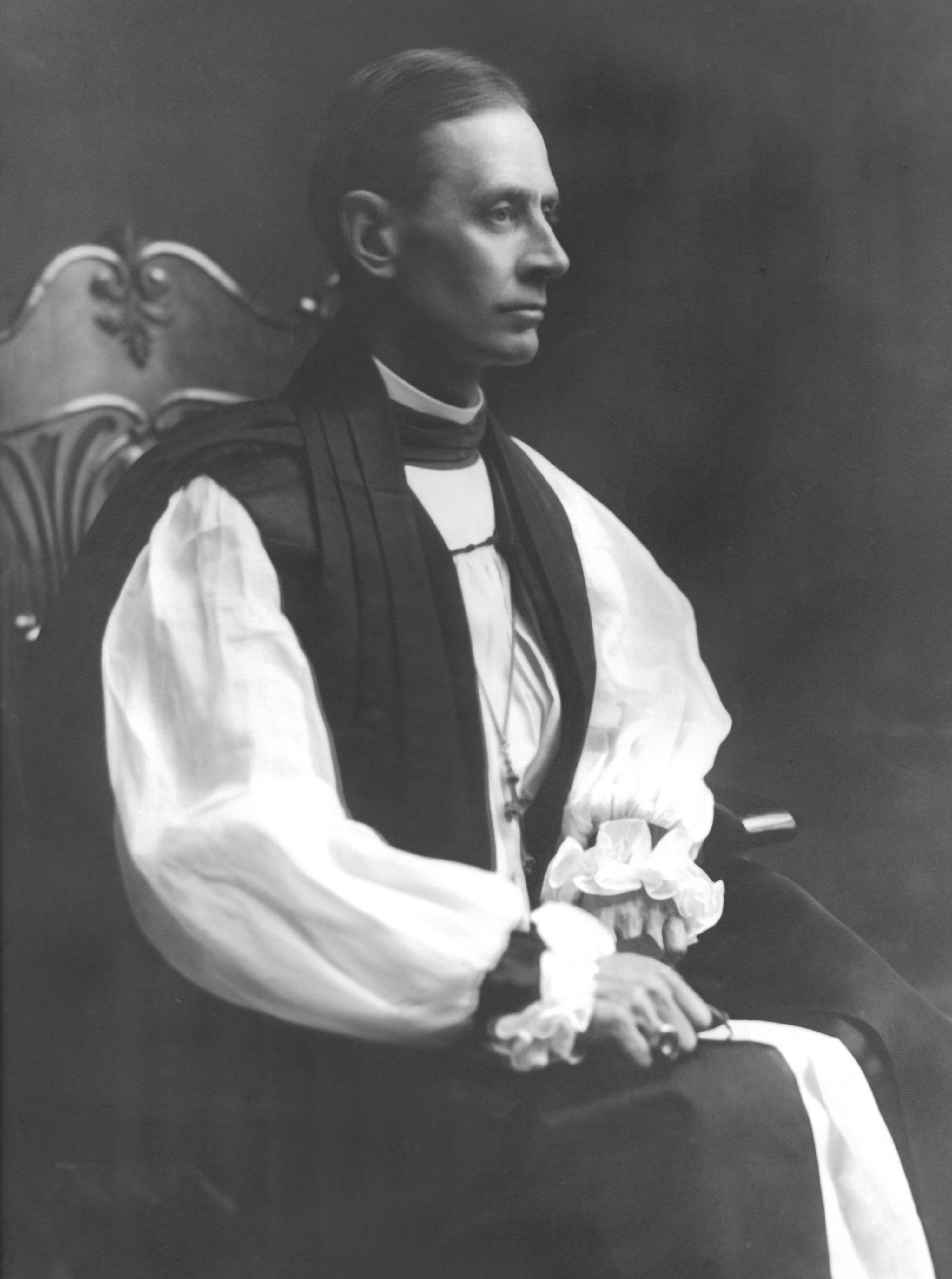 Bishop Charles D. Schofield (died 1936), Anglican Bishop of British Columbia (1916-1936) and Dean of Fredericton (1907-1915). Photo is a scan as found in the sacristy of Christ Church Cathedral, Fredericton NB.